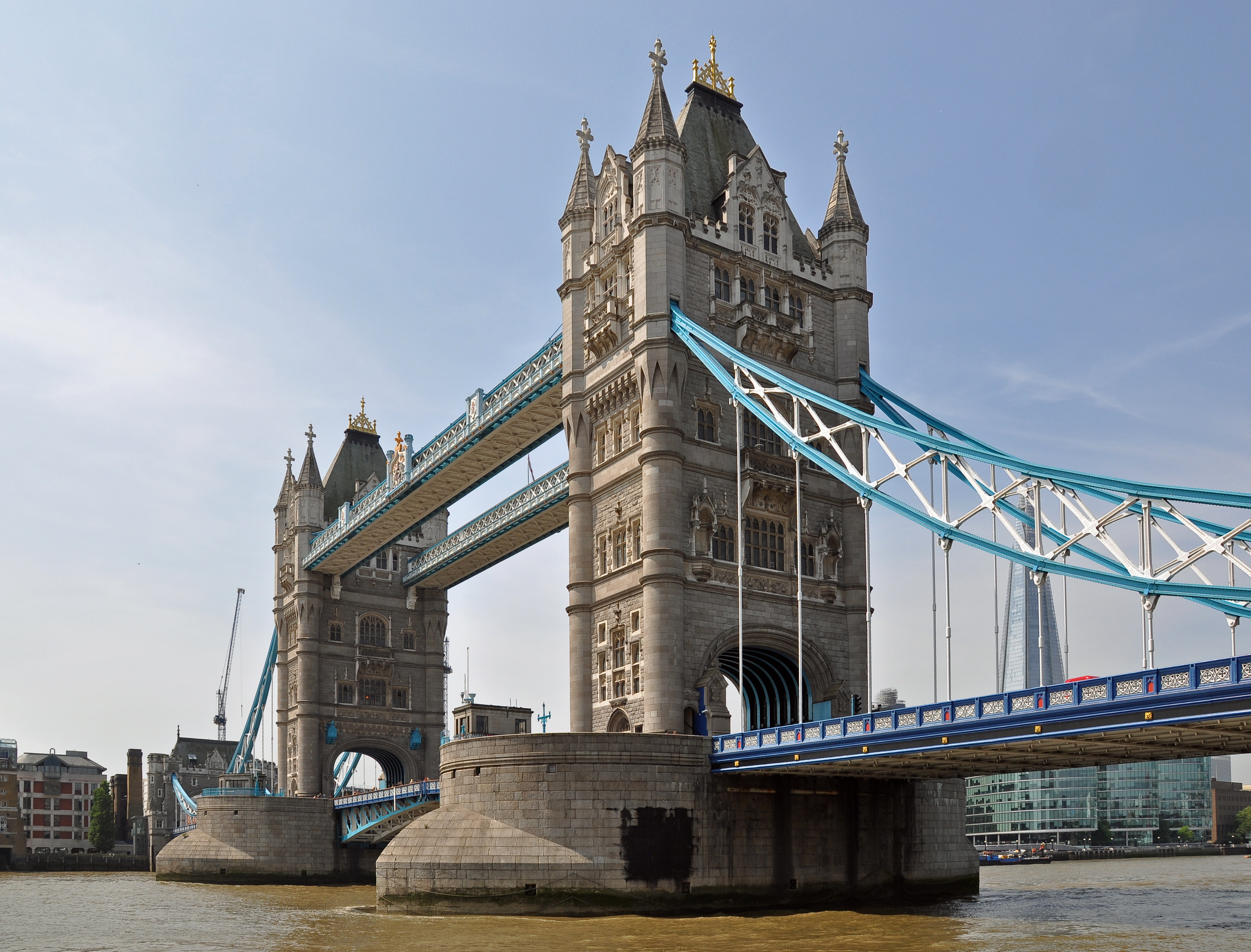 Tower Bridge in London viewed from St. Katharine Docks.